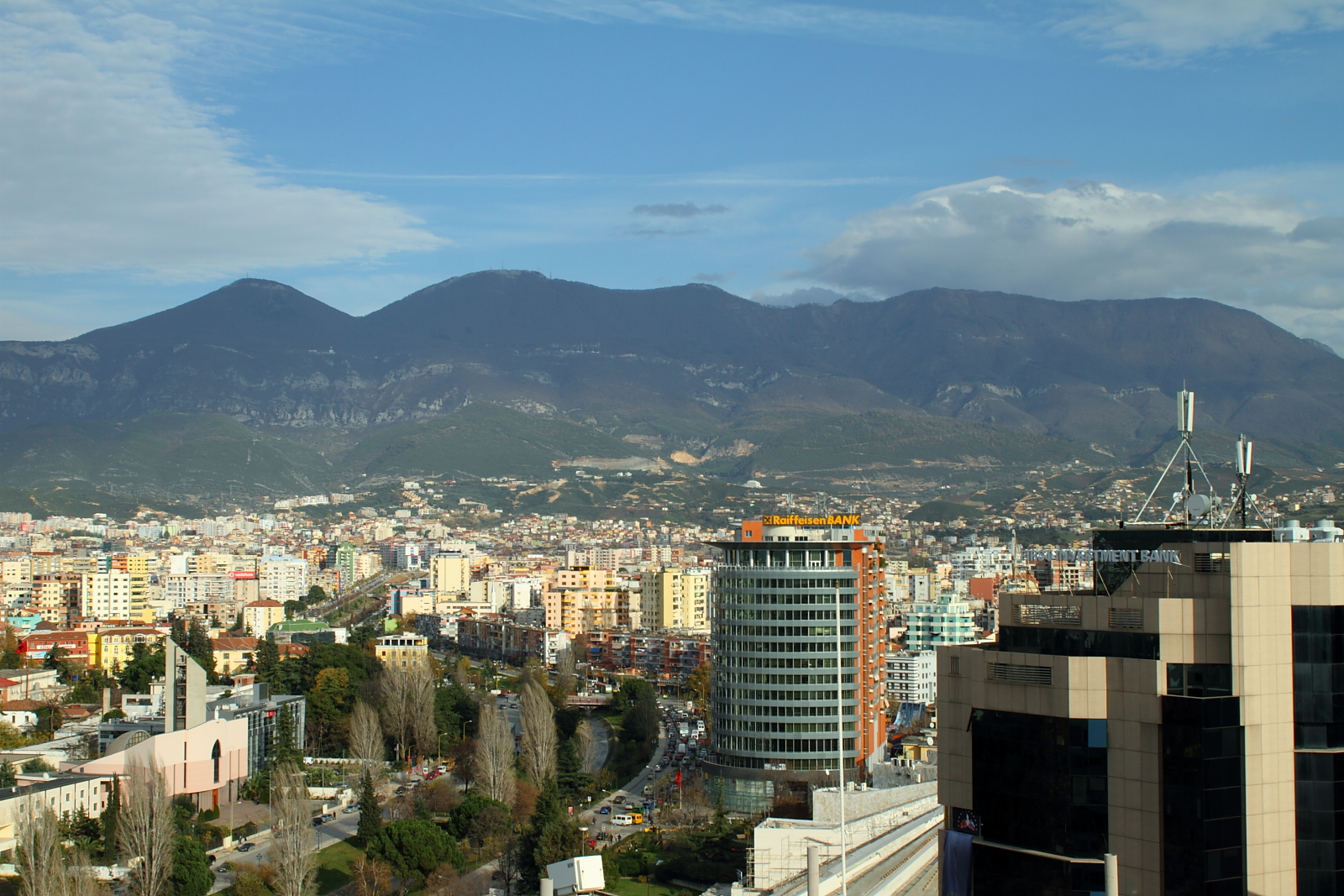 Panorama from Sky Tower in Tirana, Albania. Looking East to Mount Dajti